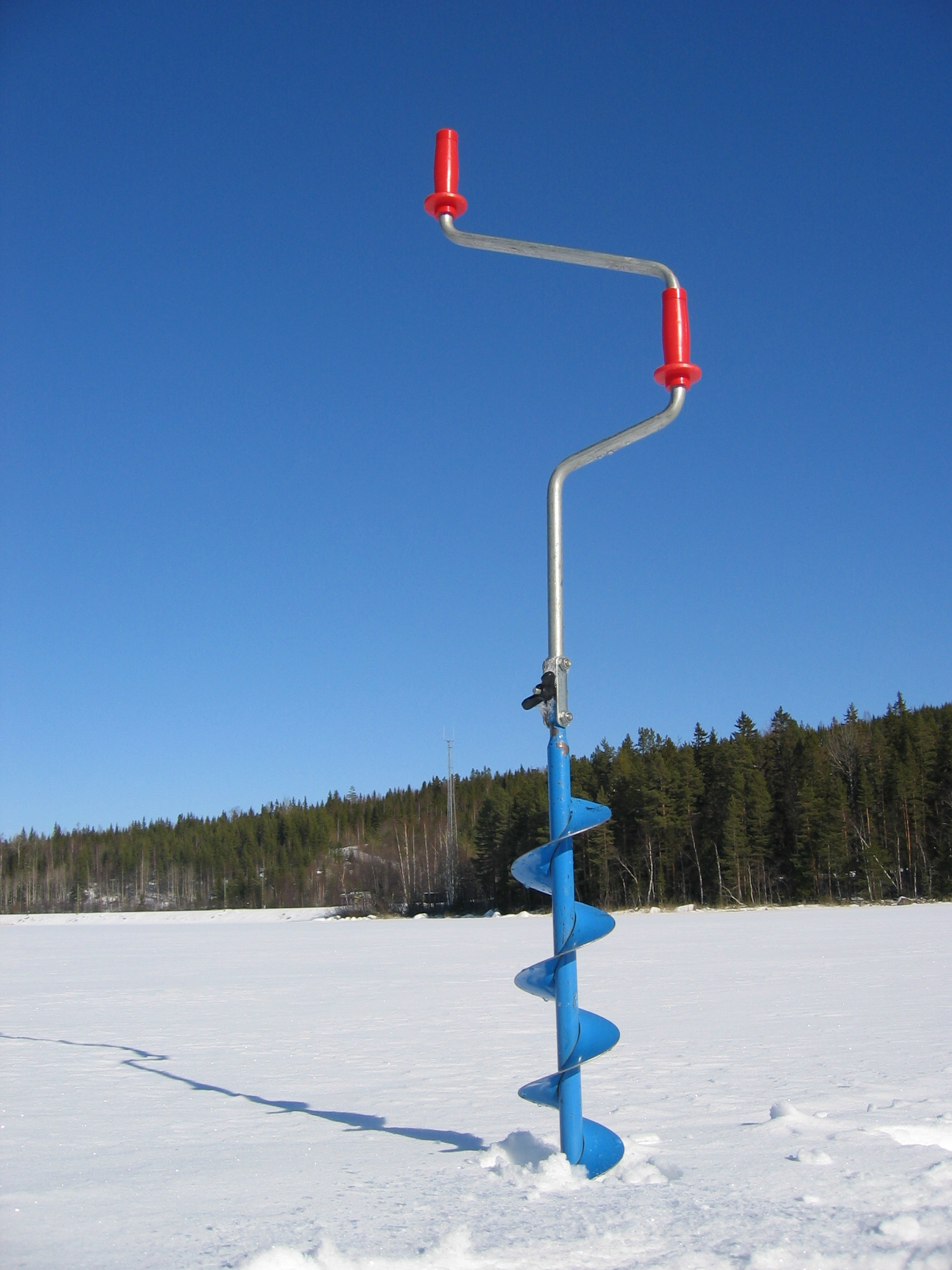 Isborr